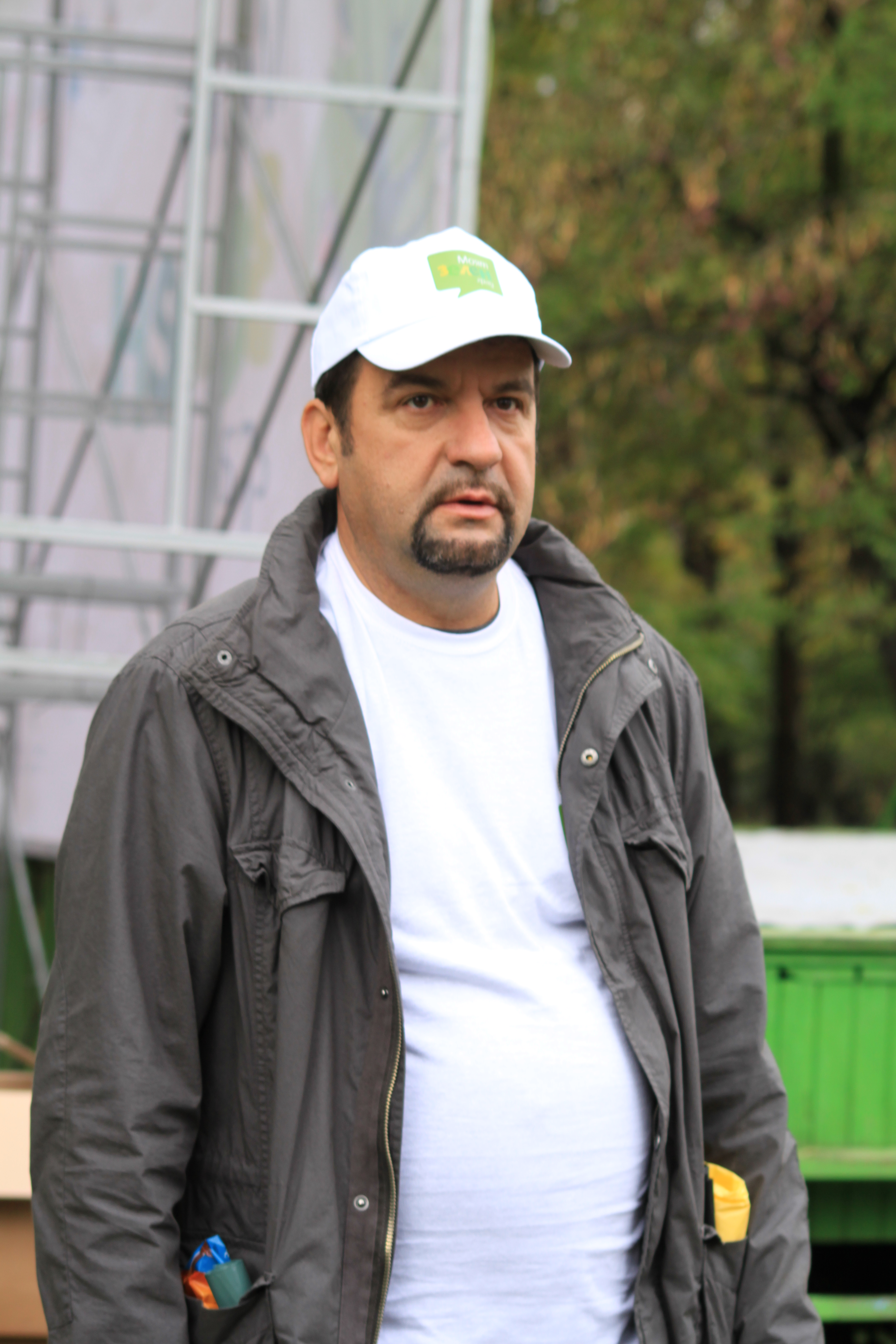 Nikolay Kunchev - bulgarian showman and jurnalist